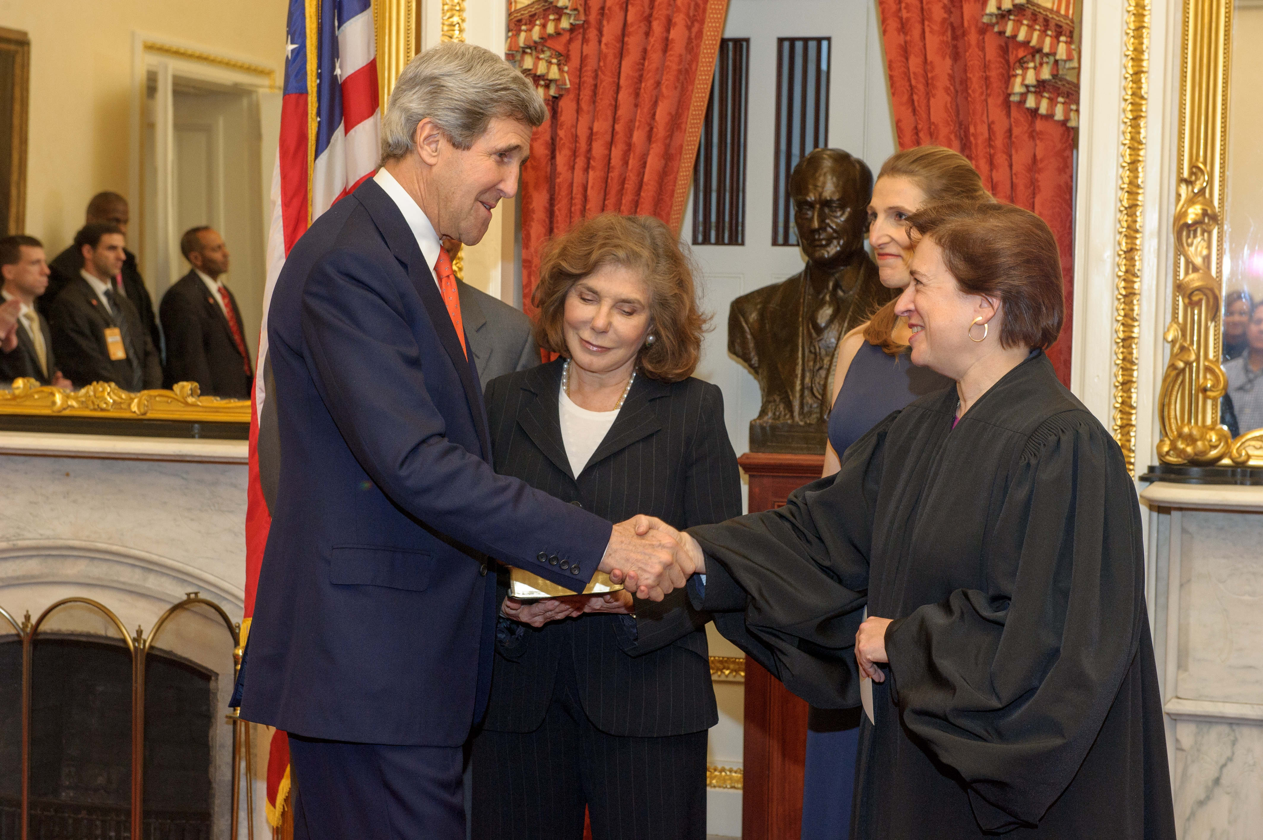 Supreme Court Justice Elena Kagan swears in Secretary of State John Kerry on February 1, 2013 in the Foreign Relations Committee Room in the Capitol. They were joined by his wife Teresa, daughter Vanessa, brother Cameron, and his Senate staff.